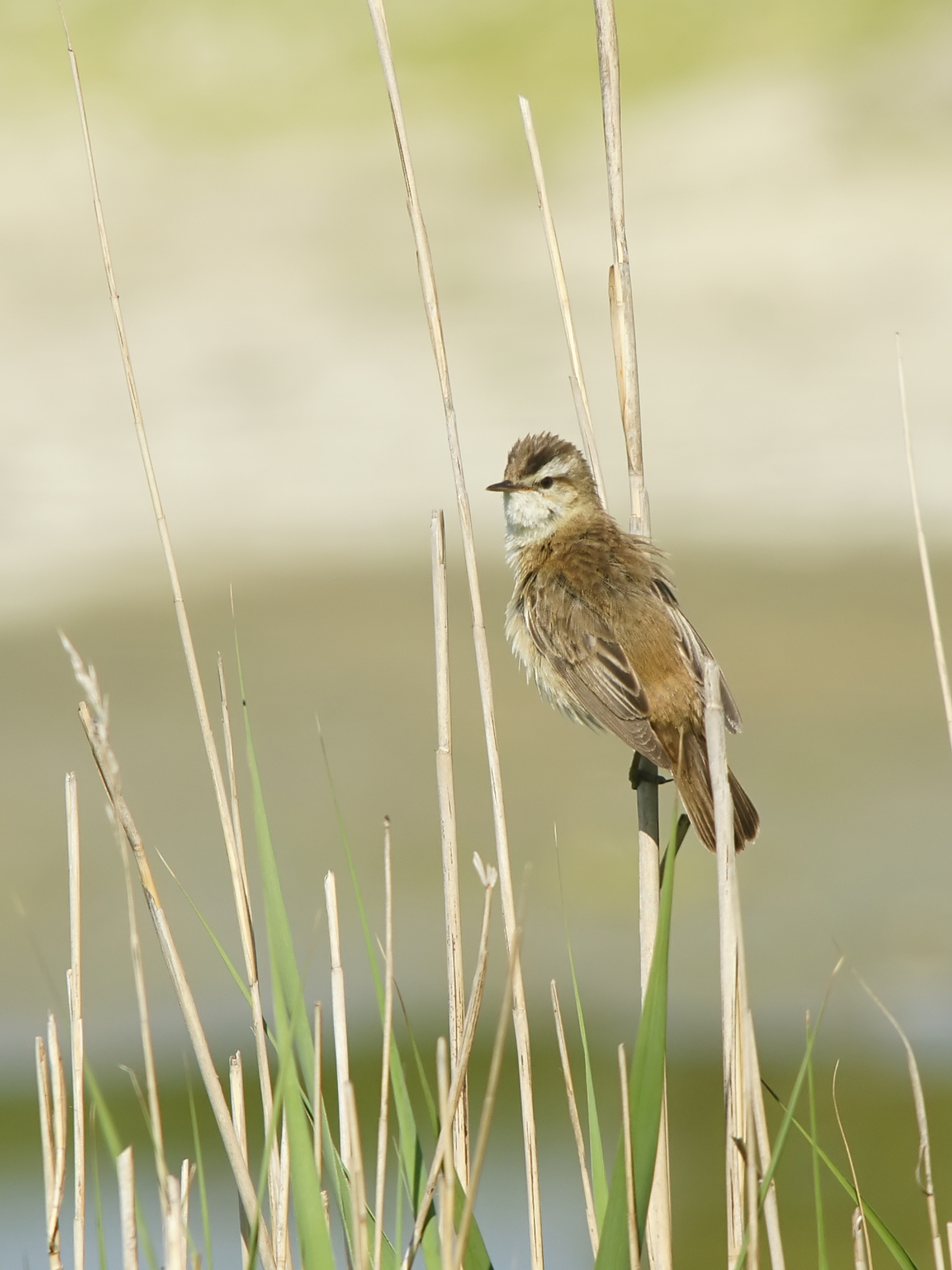 Sedge Warbler at Uitkerkse Polders, Belgium